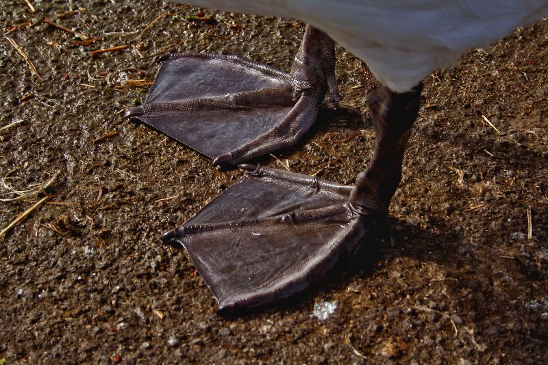 A Mute Swan's webbed feet as seen when the bird is standing on land in Somerset, England.